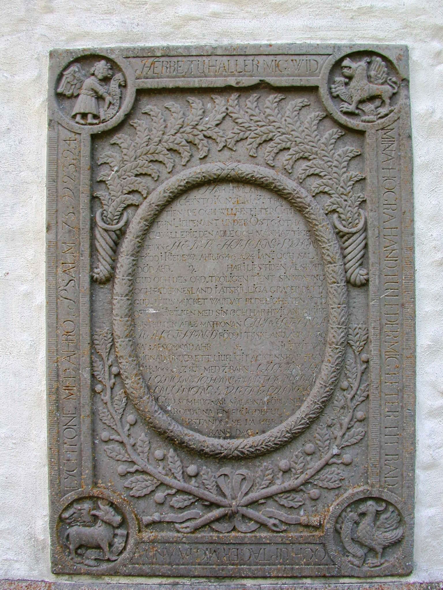 Tombstone used as a part of the church wall, Strå church, Sweden. Photo by Riggwelter, July 20, 2006.